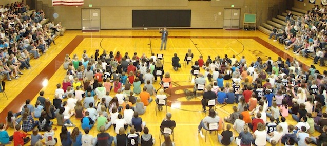 Kunjungan Sekolah yang dilakukan Jason F. Wright